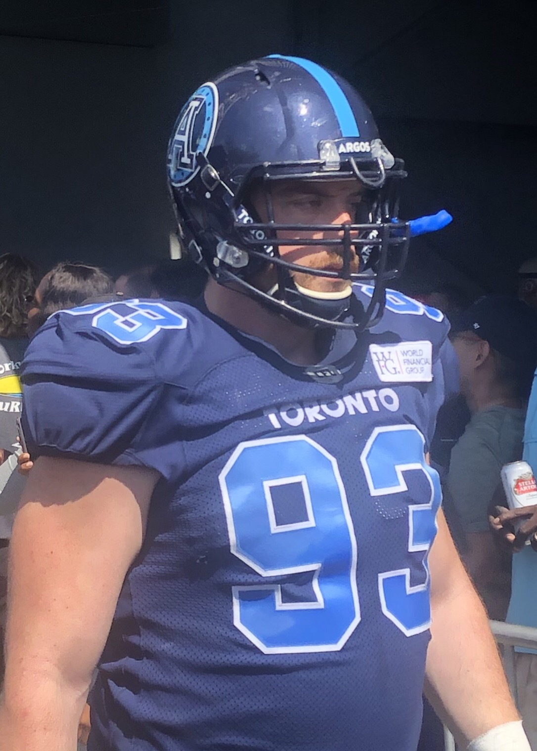 Linden Gaydosh, defensive lineman for the Toronto Argonauts.